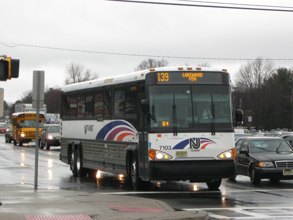 New Jersey Transit MCI D4500CT #7103 (which was supposed to be MTA New York City Bus #2271) is stopped at the Fairway Lane traffic signal on Route 9 in Old Bridge, NJ, working the 139 route. This bus is built to New York City Bus specs.